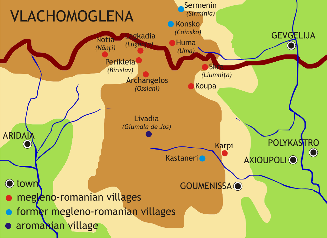 Map of Vlachomoglena Region